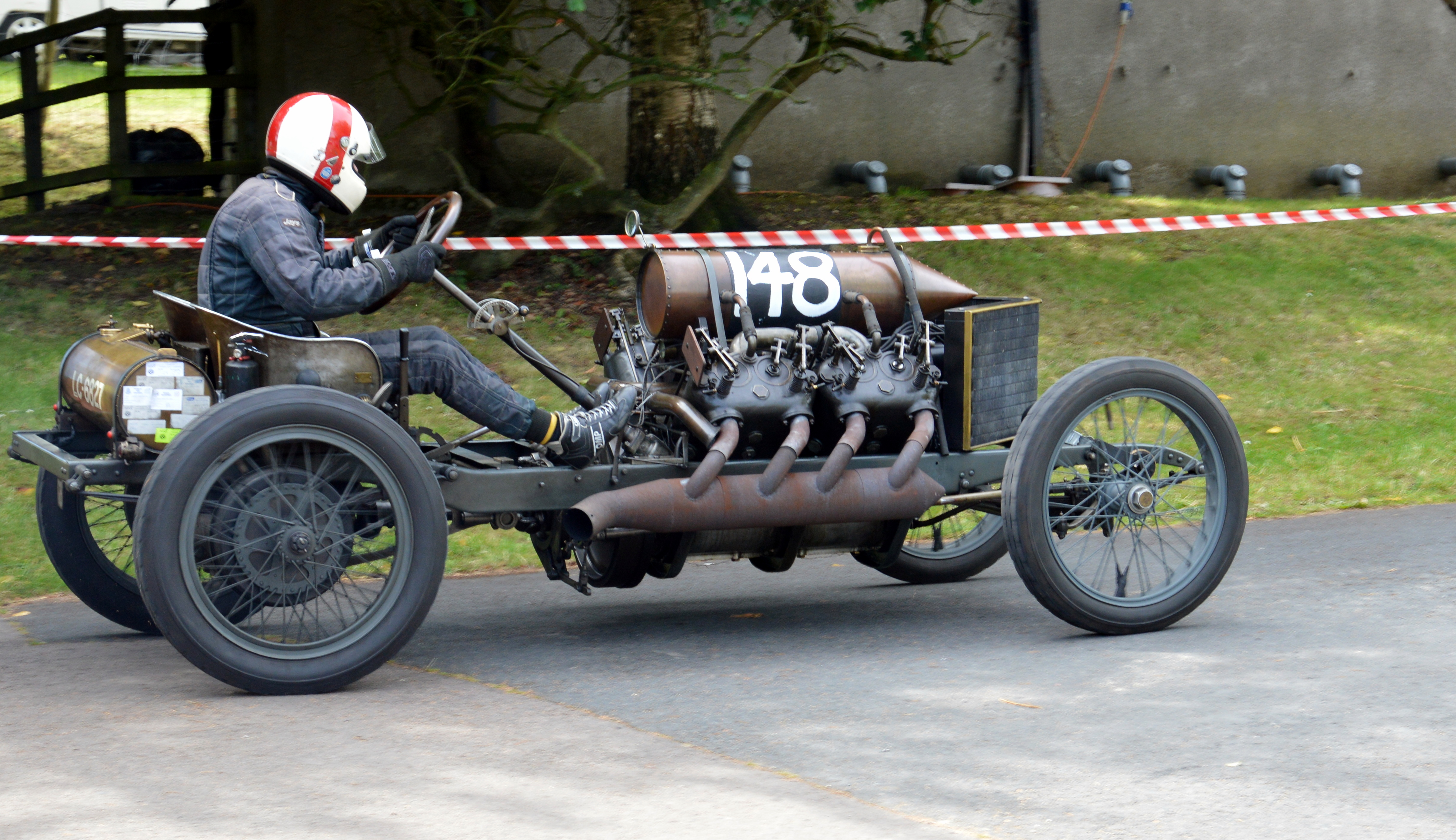 Mark Walker's 25422cc 1905 Darracq 200hp at the VSCC Prescott hill climb.